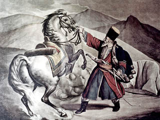 Tatar lithography